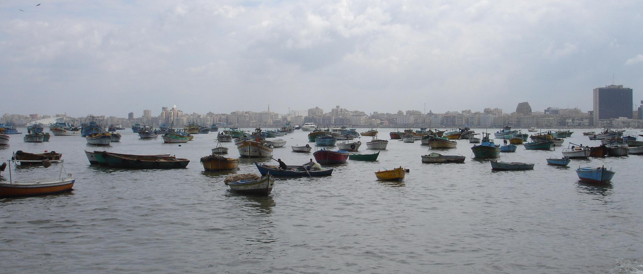 The East harbour of Alexandria as seen from Bah'ary. The background shows mid-town of Alexandria. Mansheya is seen to the most right, Bibliotheca Alexandrina is to the most left, while Raml Station is in the middle.